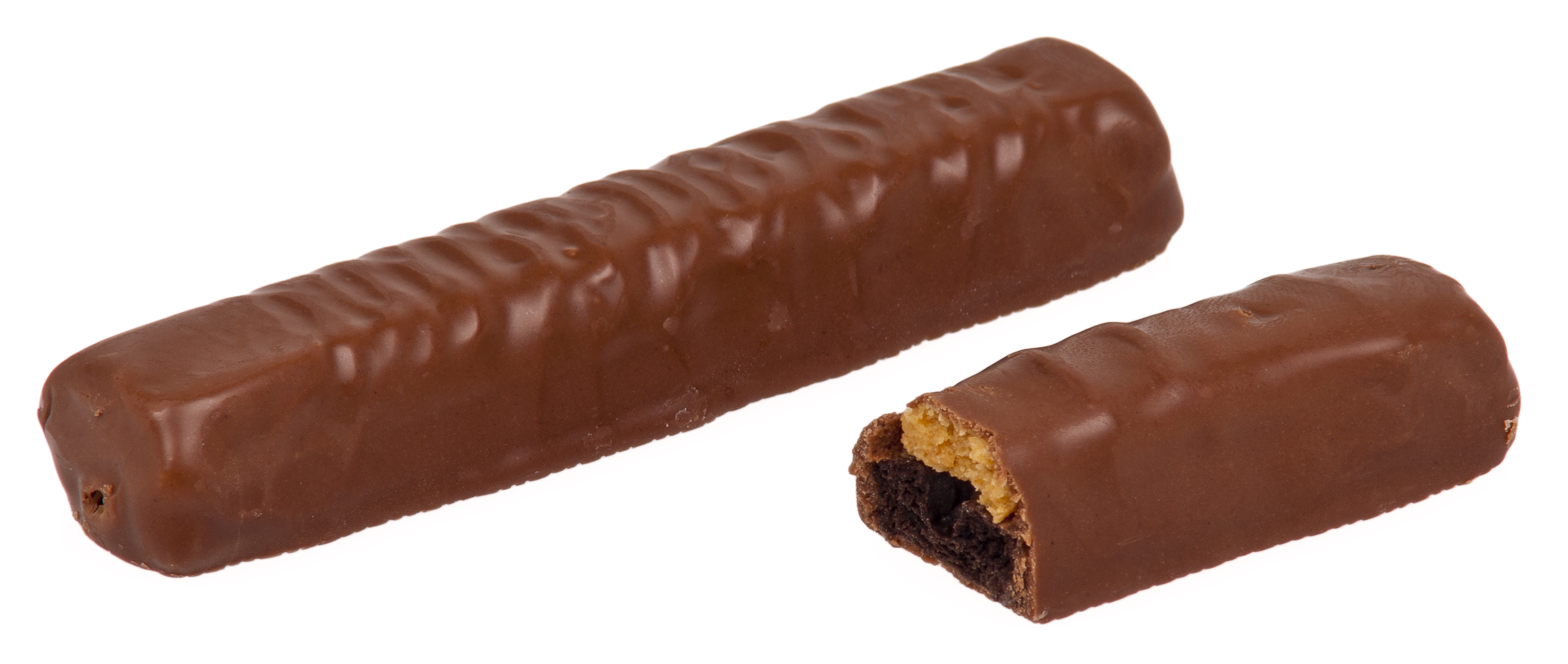 A Peanut Butter Twix, a variant of the regular caramel Twix. Sold in North America.